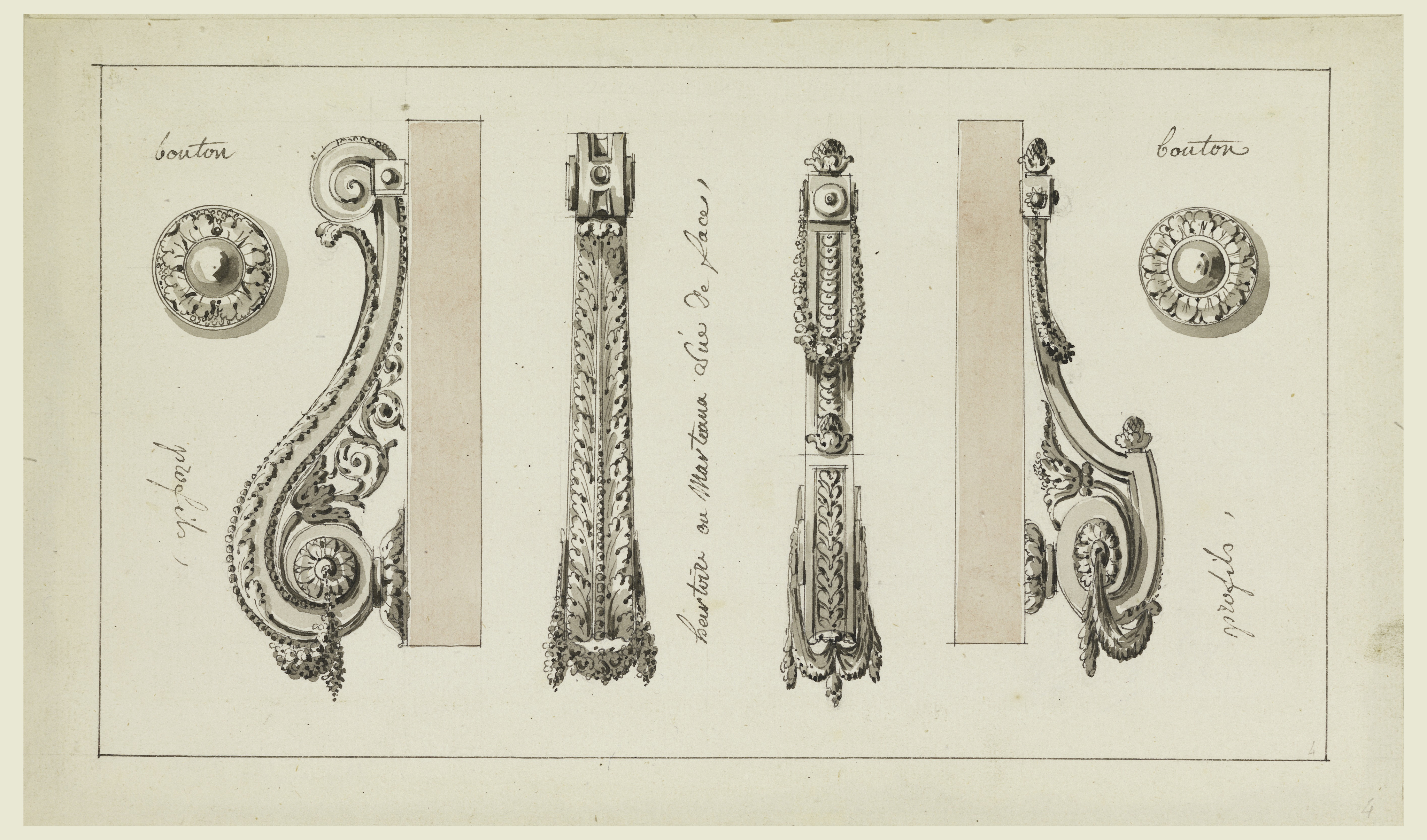 Design for two doorknockers, scroll-shaped, decorated with acanthus leaf motifs. Bottom fills center of S-curve, example at right. Framing lines.